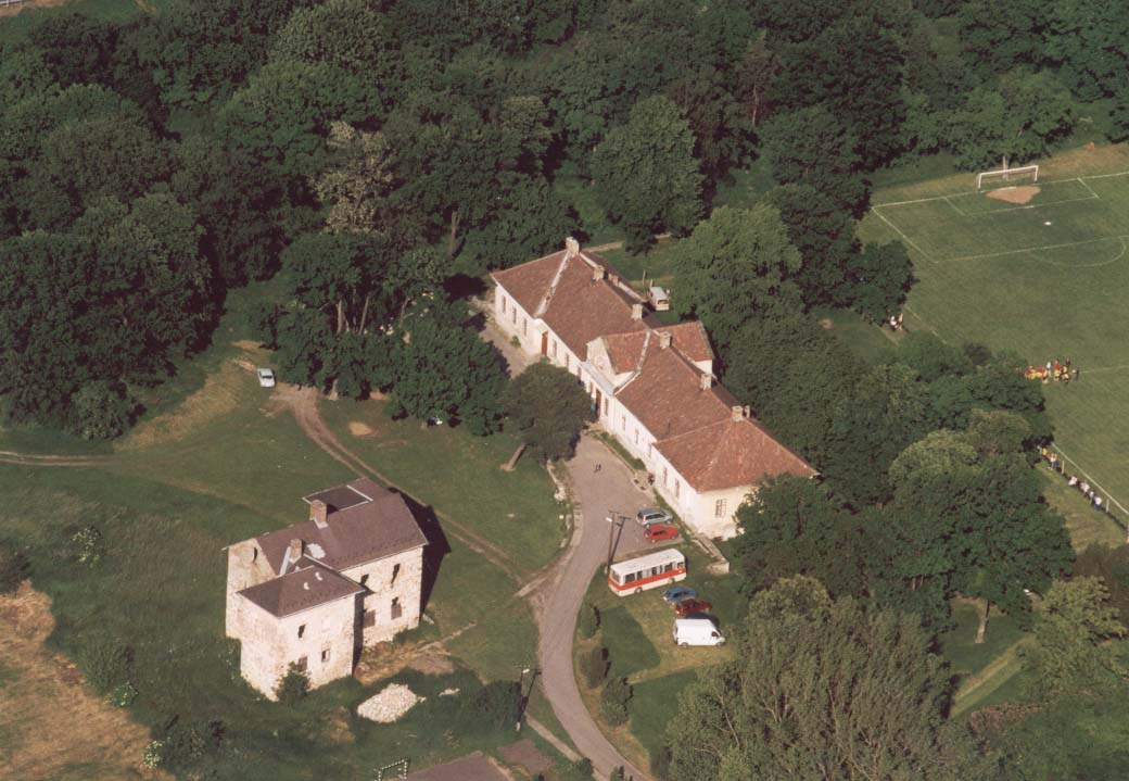 Palace - Golop - Hungary - Europe